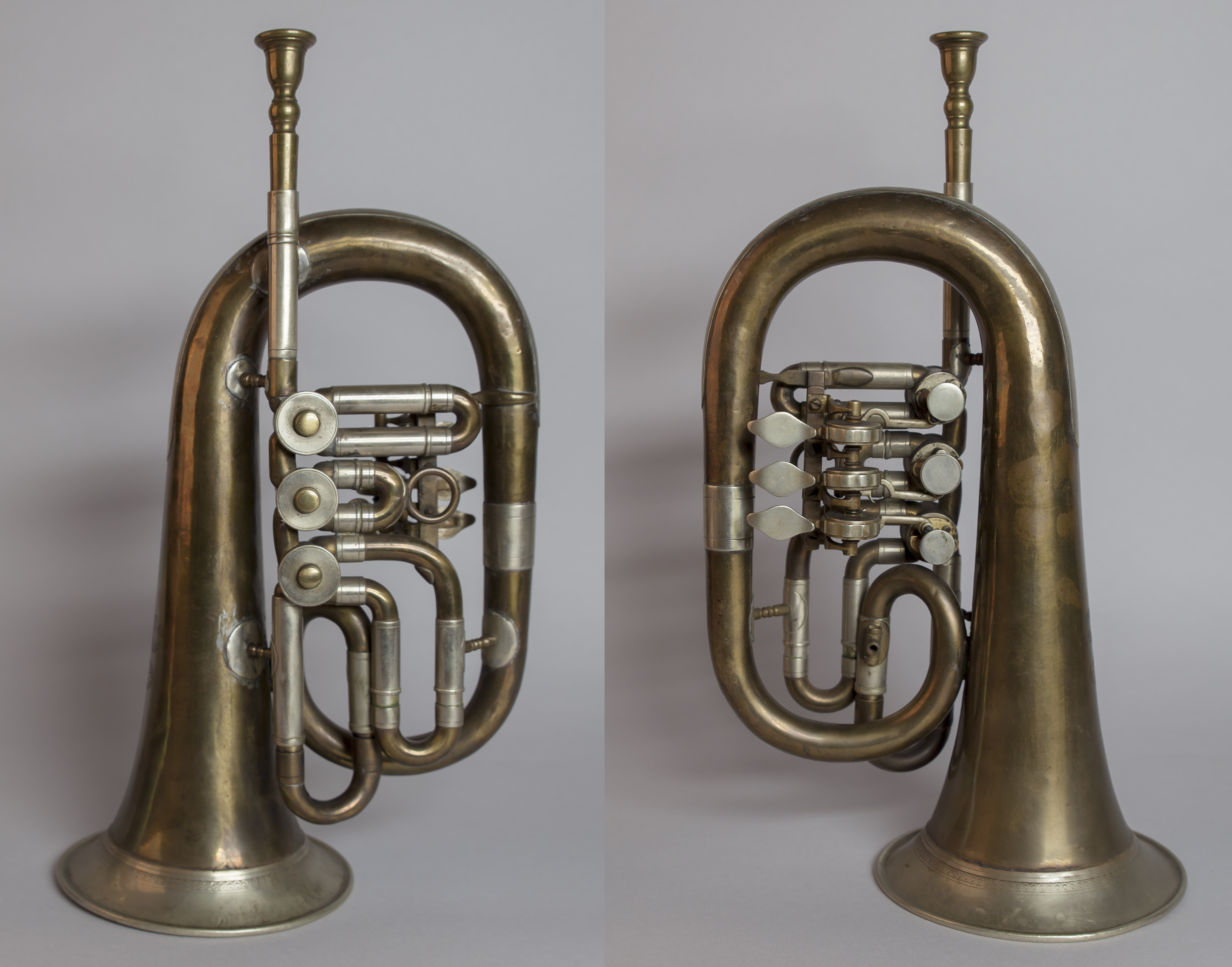 Fiscorn, by Wenzel Stowassers Söhne, between 1861 and 1918, MDMB 372